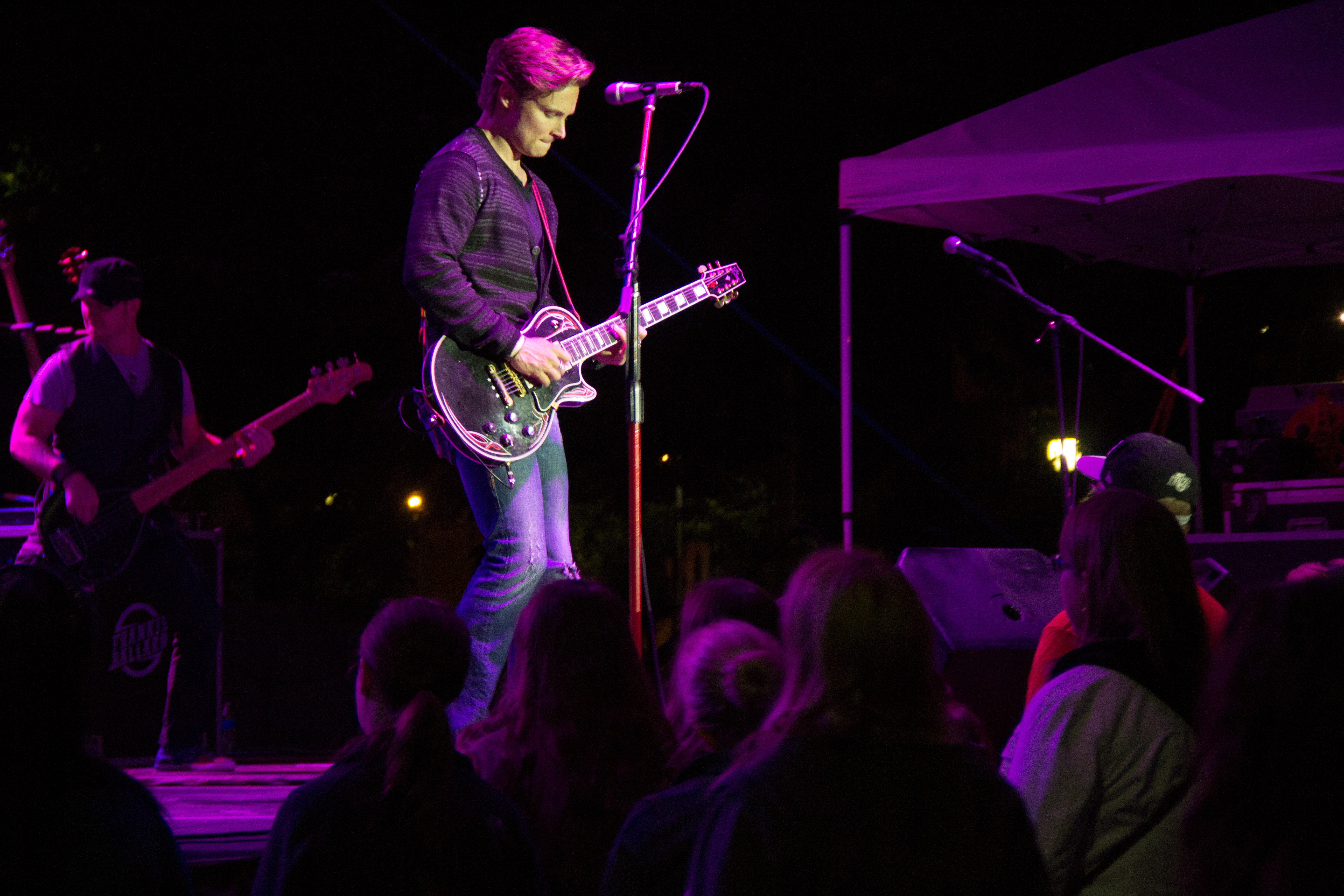 Frankie Ballard at Great River Days, Muscatine, IA 7/27/13